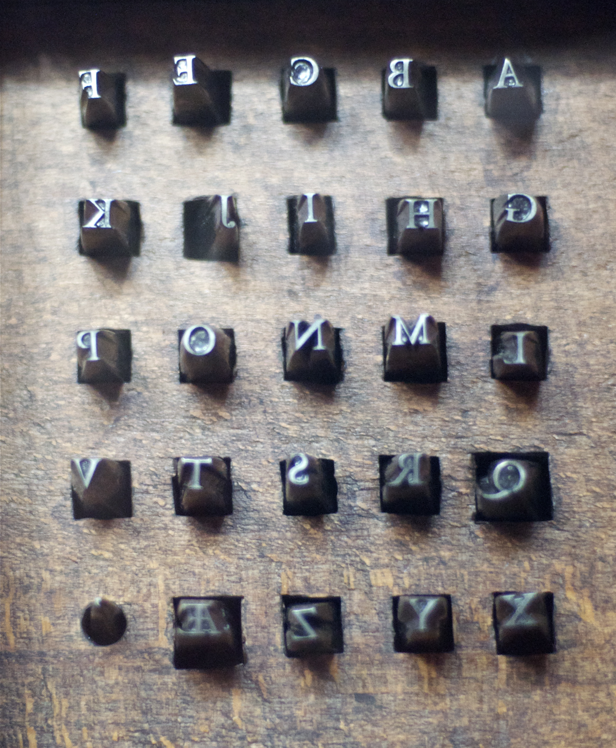 Punches for metal type founding at the Plantin-Moretus Museum, Antwerp. (The photographer reports that they are by Garamond, but the picture doesn't show a caption explaining this.)